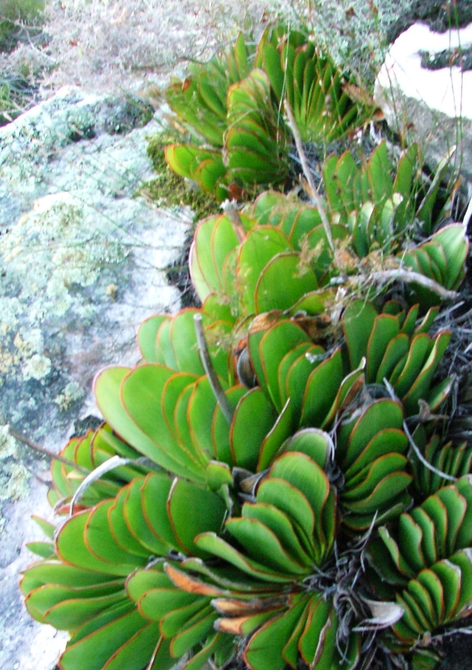 Aloe haemanthifolia.